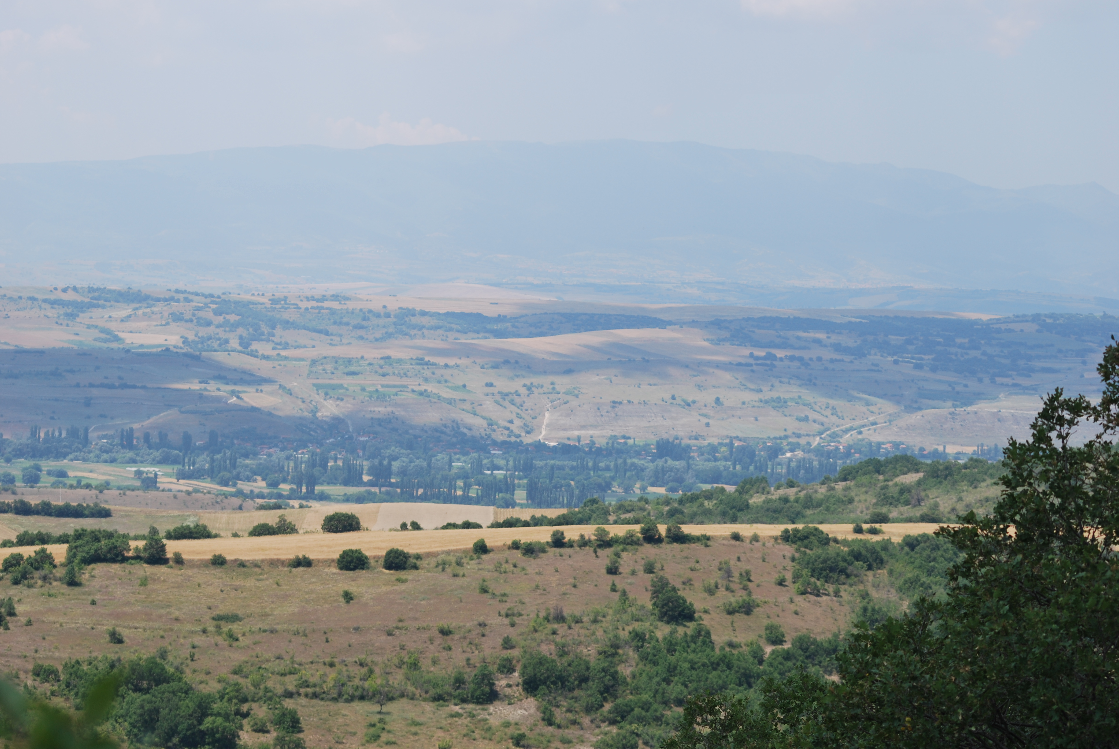 View on Studena Bara, Macedonia